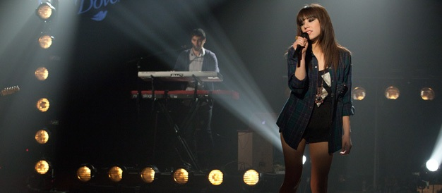 The singer/songwriter behind this summer's smash hit, 'Call Me Maybe' arrives at Walmart Soundcheck. Check out an exclusive four-song concert from Carly Rae Jepsen - live from Los Angeles! Plus, Carly Rae sits down with us for a candid conversation about pop music, her new album 'Kiss,' and her new collaboration with Justin Bieber.